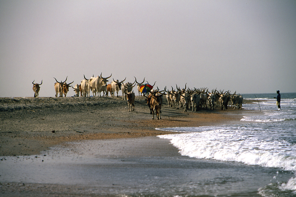 Cattle going home along the beach near Banjul, The Gambia. Photograph taken by Henryk Kotowski.